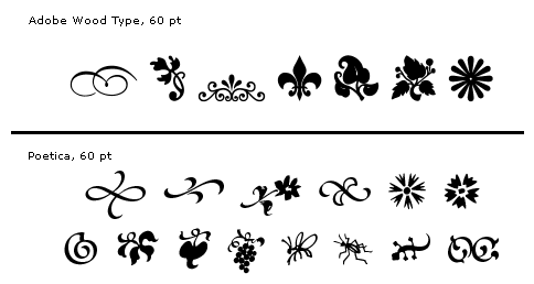 Ornaments (dingbats, vignettes) from Poetica and Adobe Wood Type, 60 pt. Bitmap images of font glyphs are not copyrightable under United States law, but the actual fonts are copyrighted.